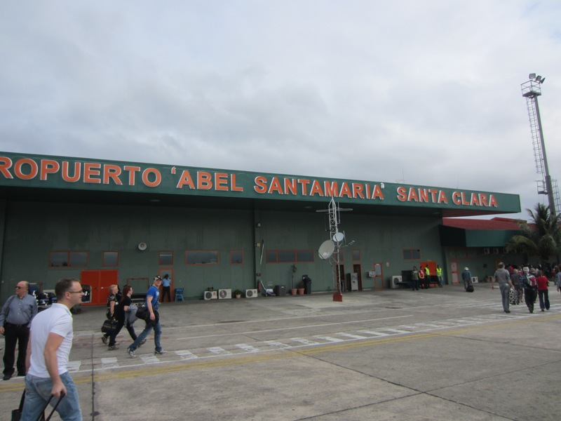 Airside view of Santa Clara International Airport (Cuba)